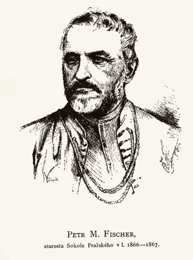 Portrait of Petr Matěj Fischer (1809-1892), Czech businessman, philantropist, municipal politician and chairman of Sokol.